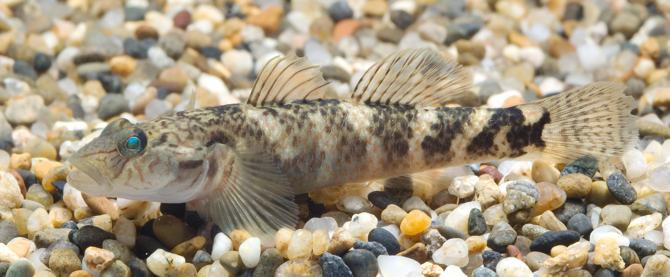 Shimayoshinobori, Rhinogobius sp. CB